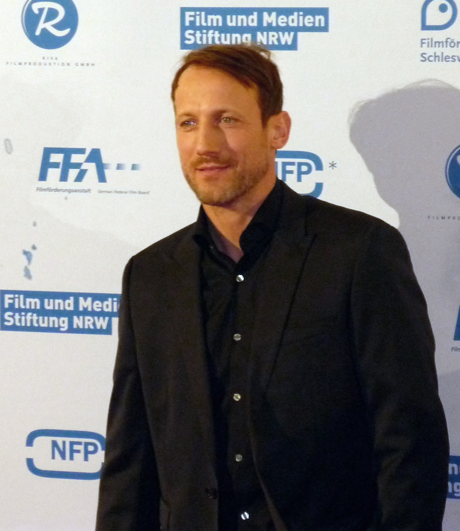 Wotan Wilke Möhring in Essen (Germany), 2013/04/11